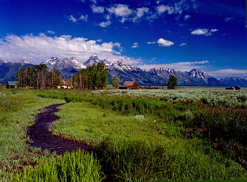 Teton Valley and mountain range near Jackson, Wyoming